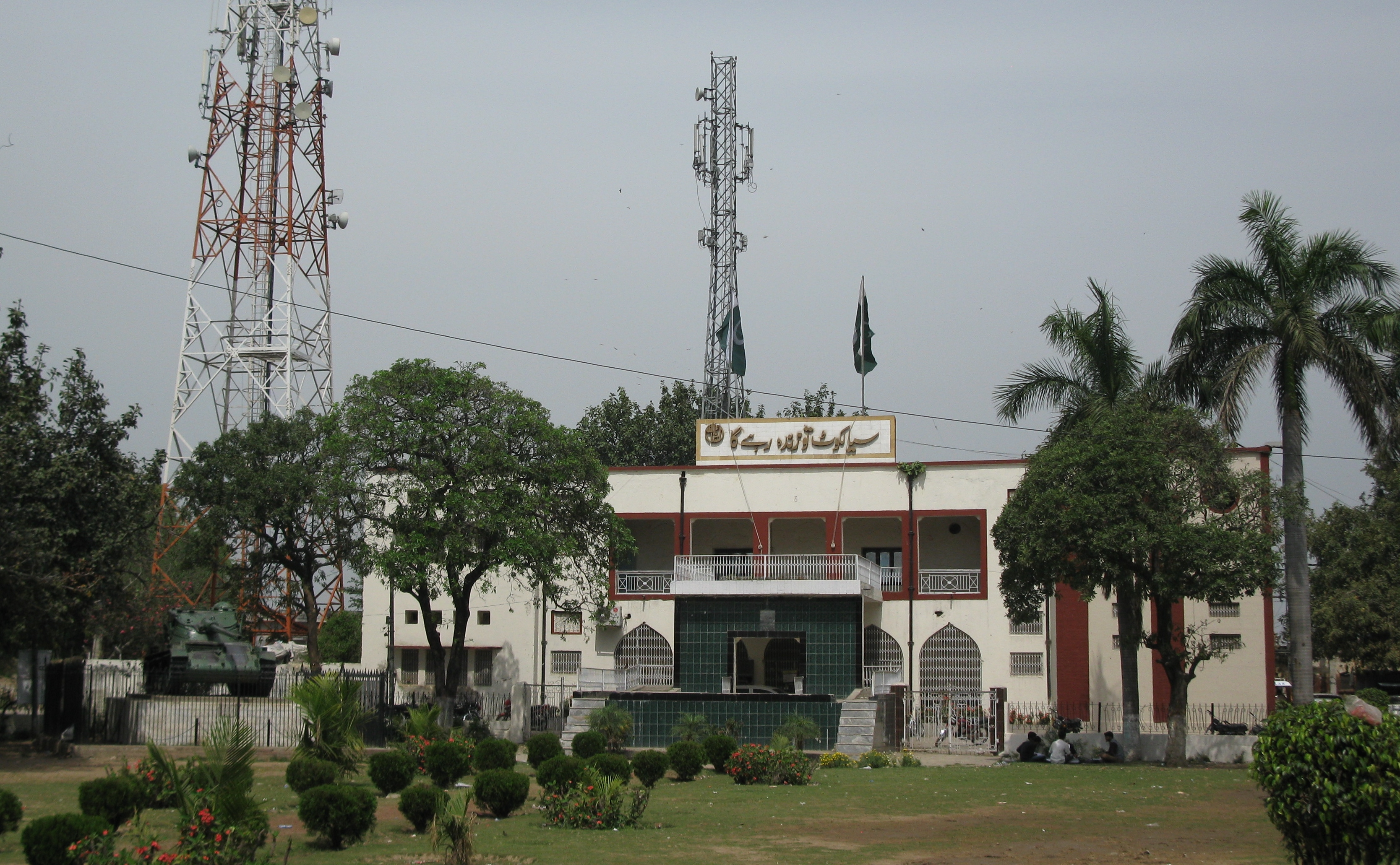 Sialkot, Fort: Memorial